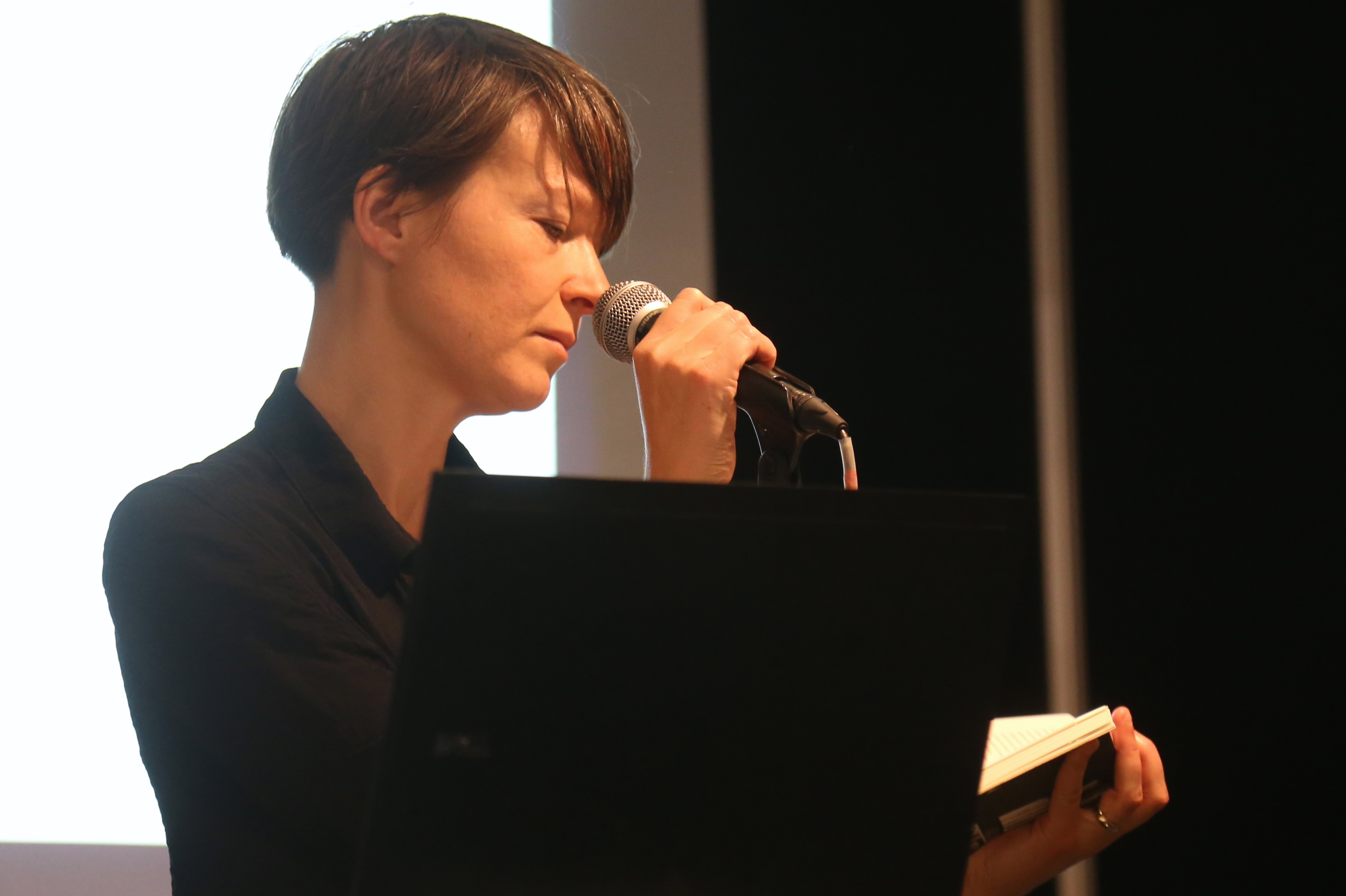 Jenny Tunedal Larsson at the Gothenburg book fair 2014.